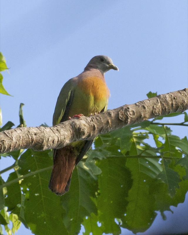 (Work in progress) Date: 25th. September 2011 Location: Rakata, Kratatau, Indonesia